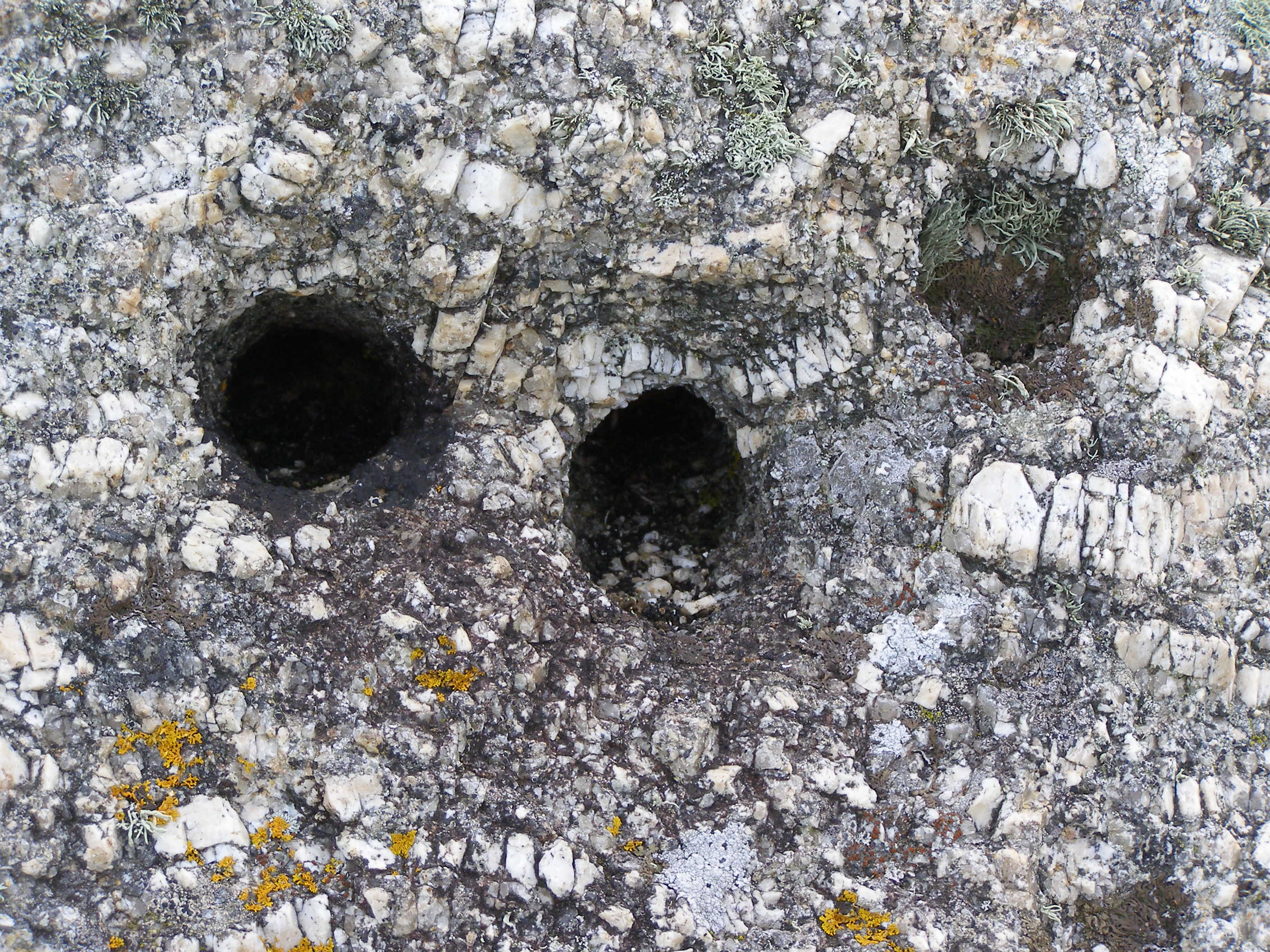 Anchor holes in the granite next to the Logan Rock, south of Treen, Cornwall